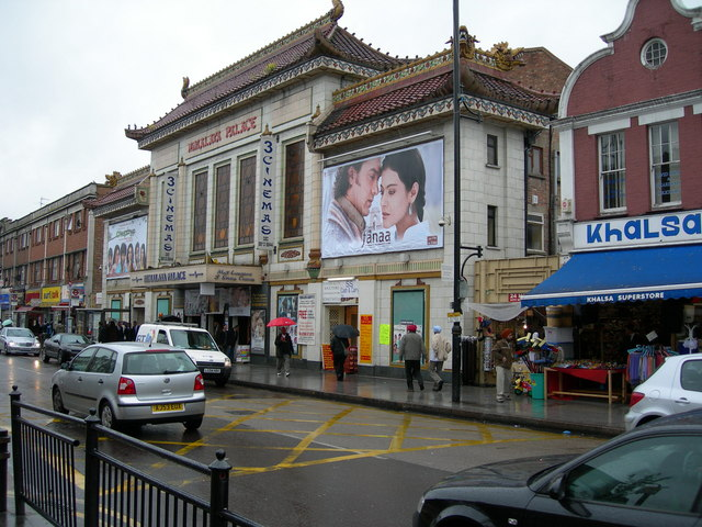 Himalaya Palace Cinema, Southall. This is on South Road, the main route between Southall Broadway and the railway station. The films shown are exclusively Asian.